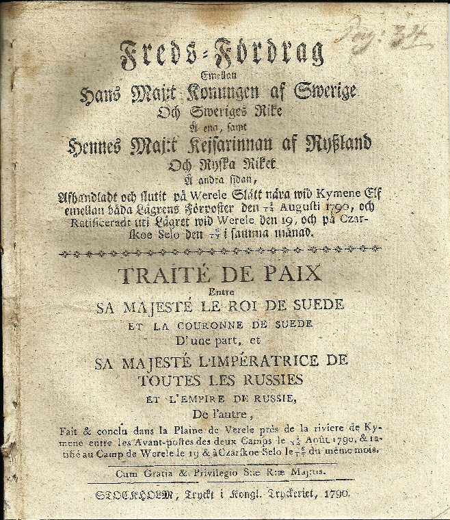 Bulletin of peace in Värälä